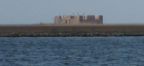 Summary View of Fort Proctor as seen in distance across the Mississippi River Gulf Outlet Canal from Shell Beach by Yscloskey, Louisiana.